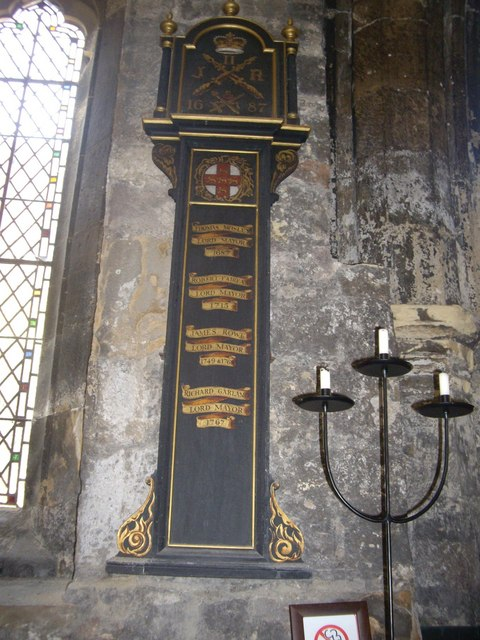 Former Lord Mayors of York One of a pair of wall plaques in the shape of a grandfather clock inside Holy Trinity Church.